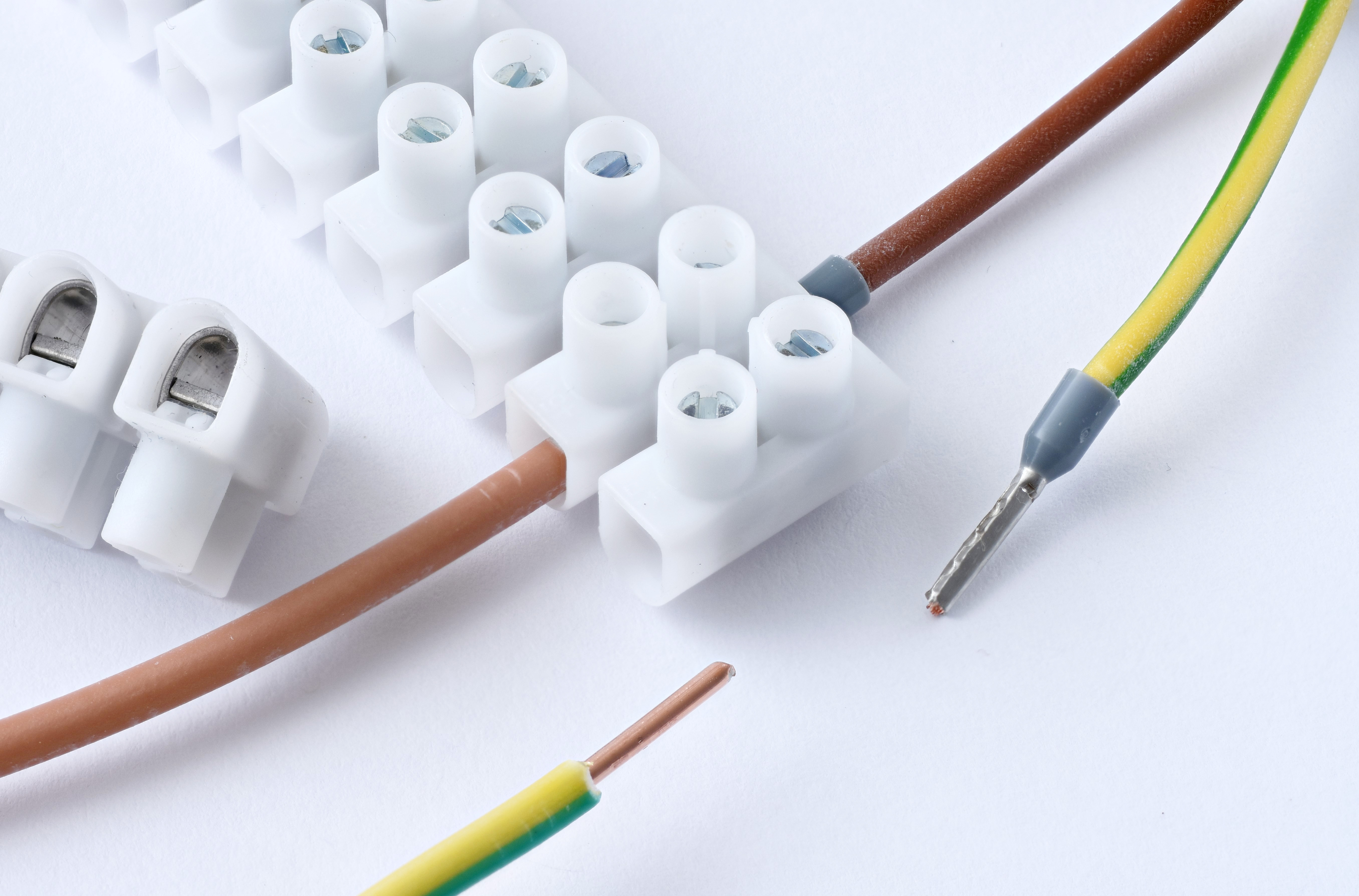 Screw terminals